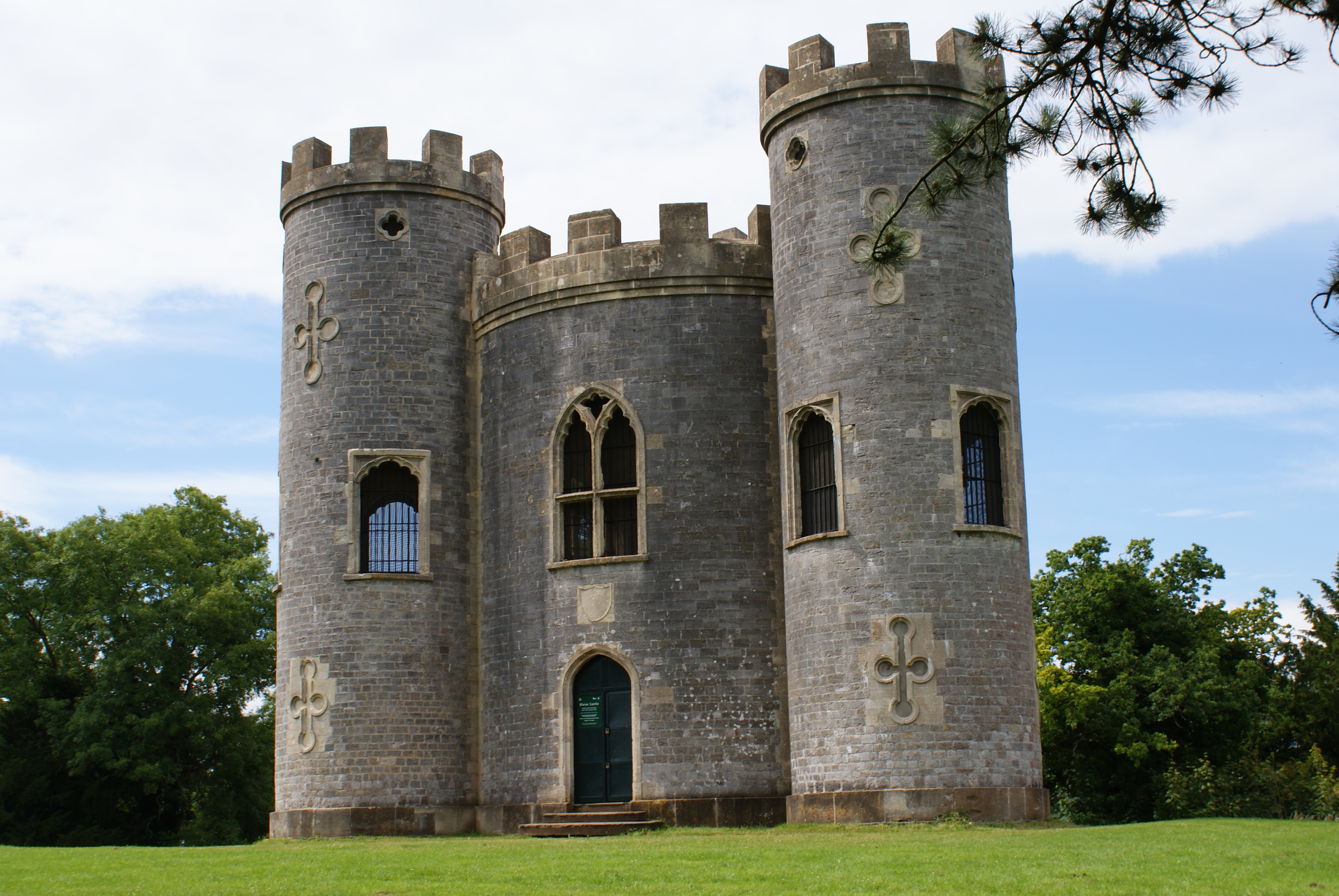 The castle at Blaise Castle Estate, in mid-July en:2008.